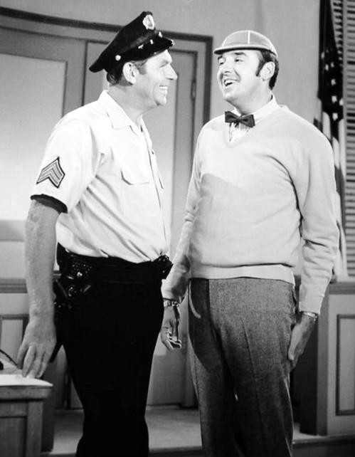 Publicity photo from the premiere of the televisio program The Jim Nabors Hour. The photo shows Andy Griffith as a guest star and Jim Nabors in a skit that appears to be connected to The Andy Griffith Show.